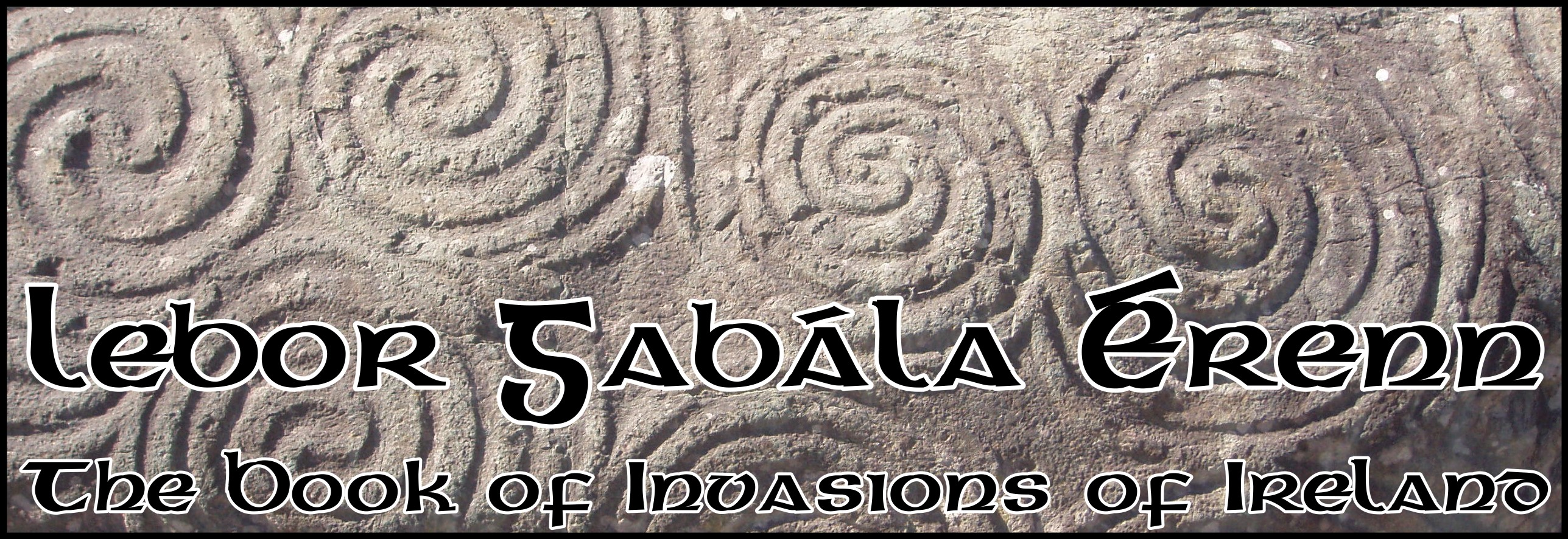 A picture of Newgrange Kerbstone 1 (K1), at the Newgrange site in County Meath, Ireland. The text says; Lebor Gabála Érenn, in English this translates as "The Book of Invasions of Ireland".